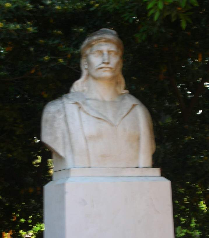 Monument of Odisseas Androutsos in Athens, own photo Gepsimos 14:44, 14 May 2006 (UTC)